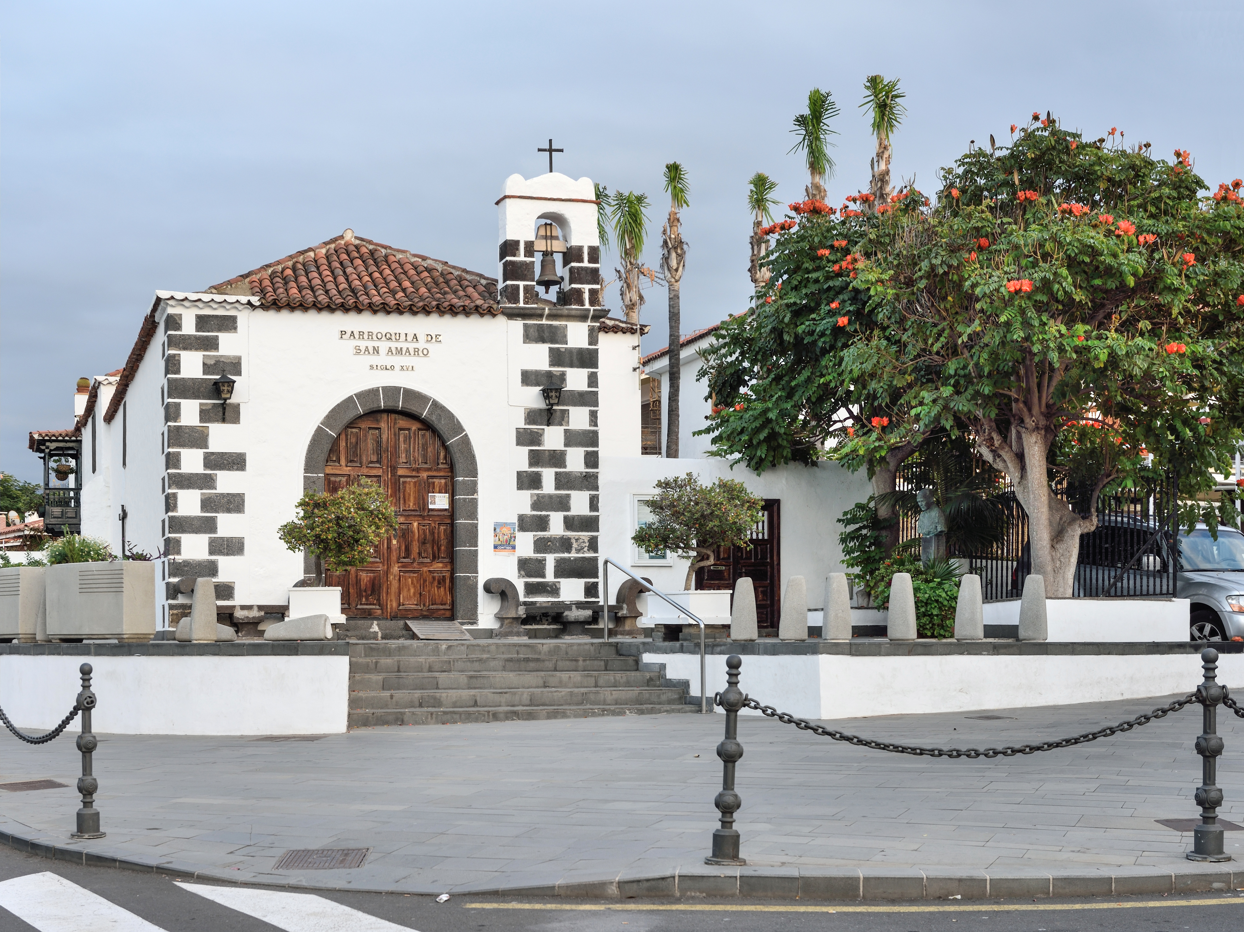 The chapel of San Amaro in Puerto de la Cruz, Tenerife, Canary Islands.